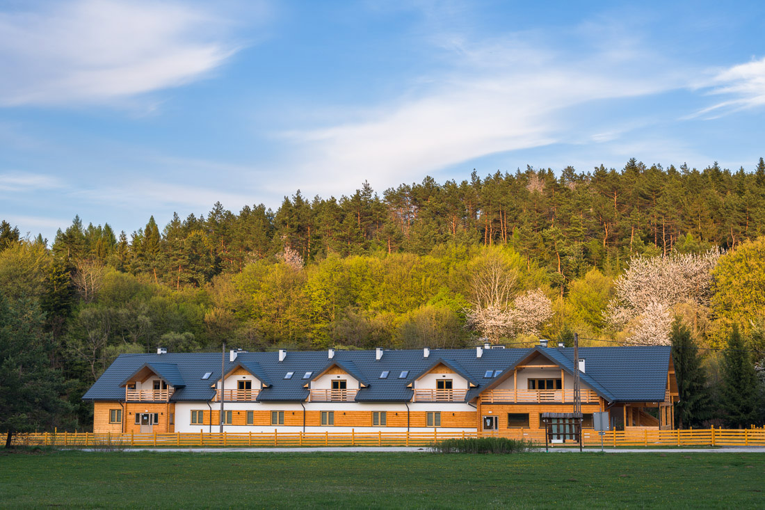 OSW Radocyna Centre, Southern Poland